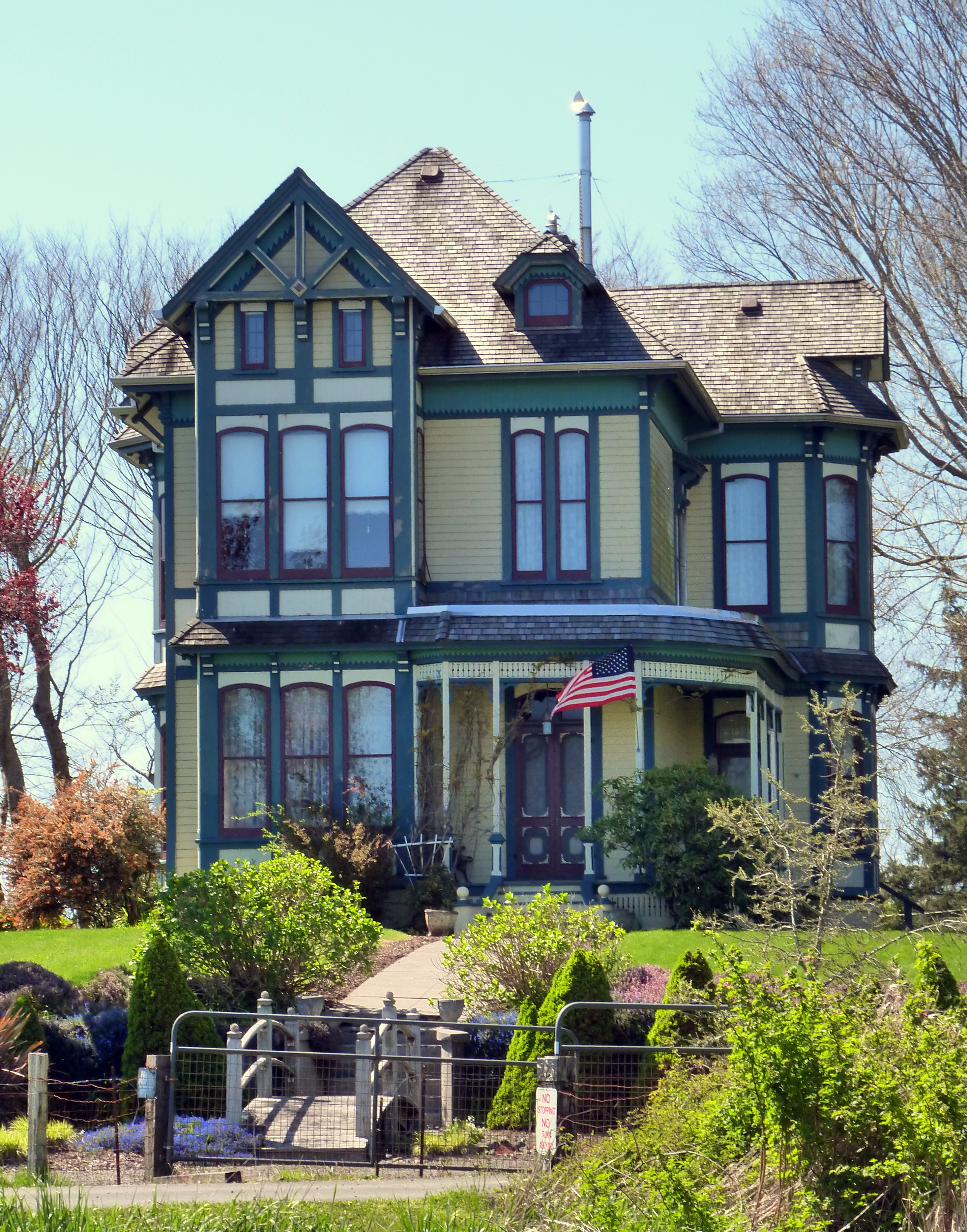 The historic Daniel Knight Warren House (built 1885), located at 107 Northeast Skipanon Drive in Warrenton, Oregon, United States, is listed on the US National Register of Historic Places.